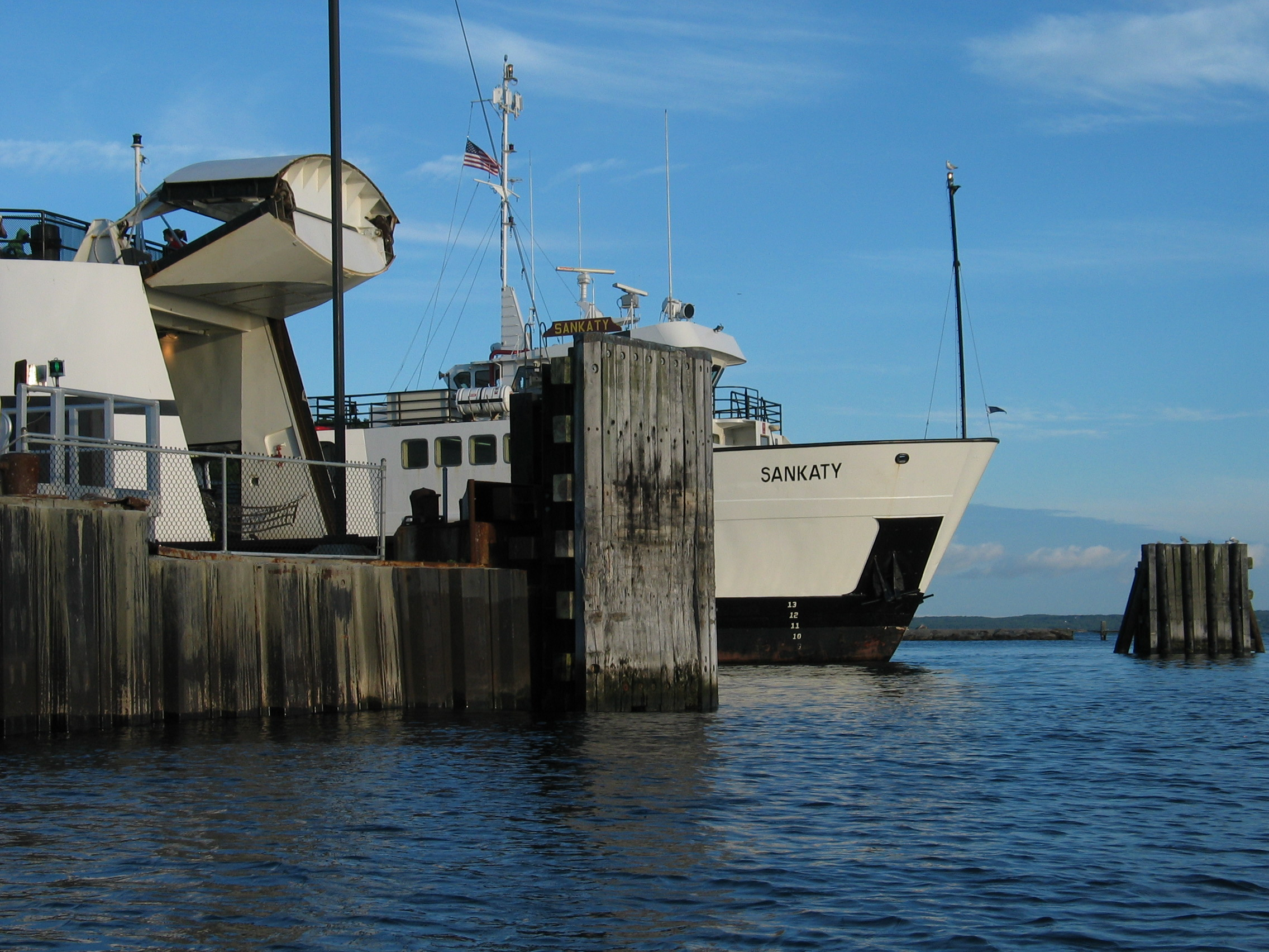 The dock of the Steamship Authority in Woods Hole, MA IMO number: 8108030 Callsign: WRA4078